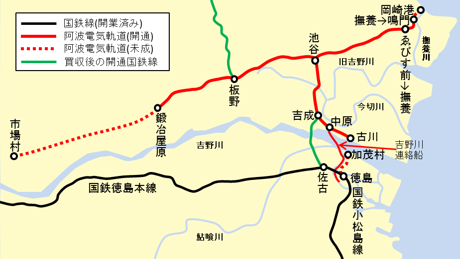 Route map of Awa electric tramway (completed lines and planned lines), including surrounding government railway lines.